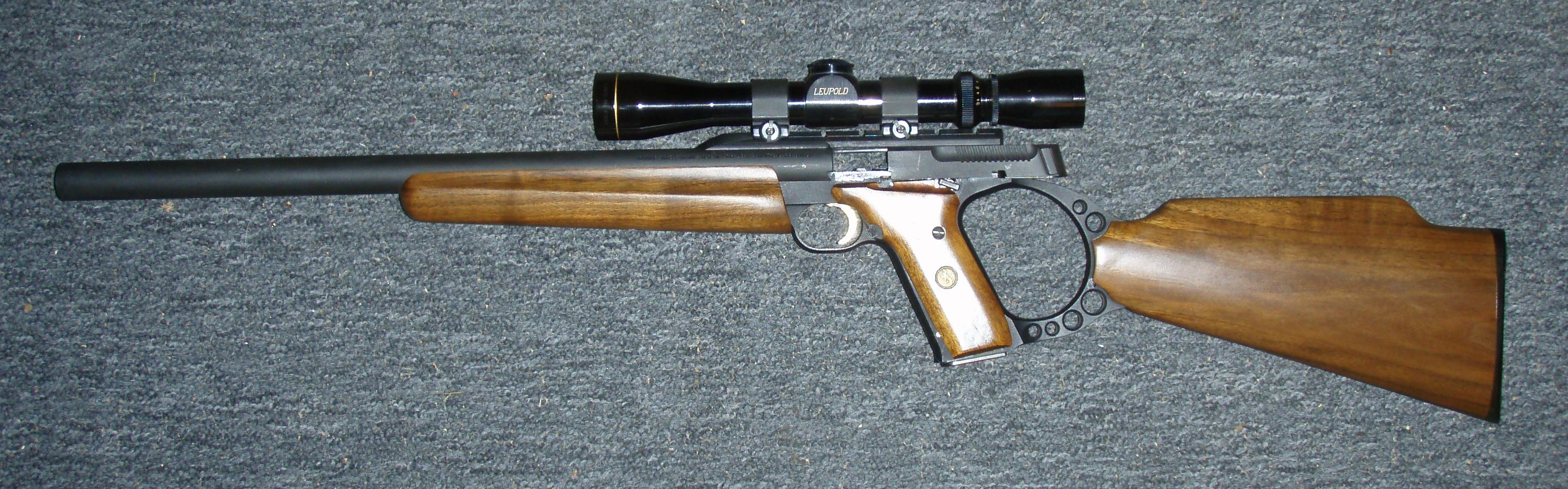 Browning Buck Mark .22 Rifle Target Model